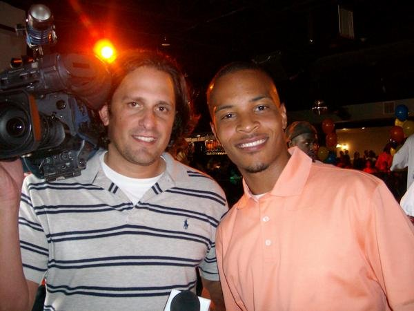 Joe Floccari with Rapper T.I. Atlanta, Georgia